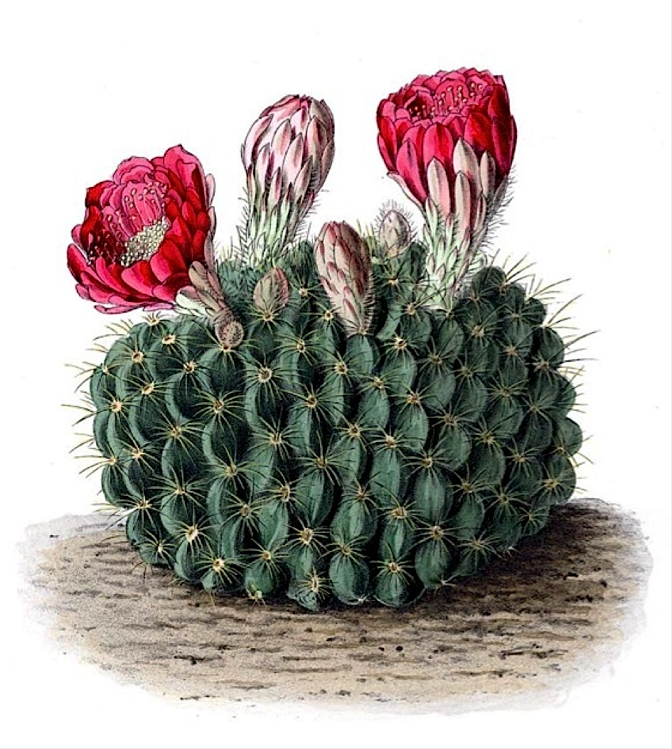 Echinopsis cinnabarina